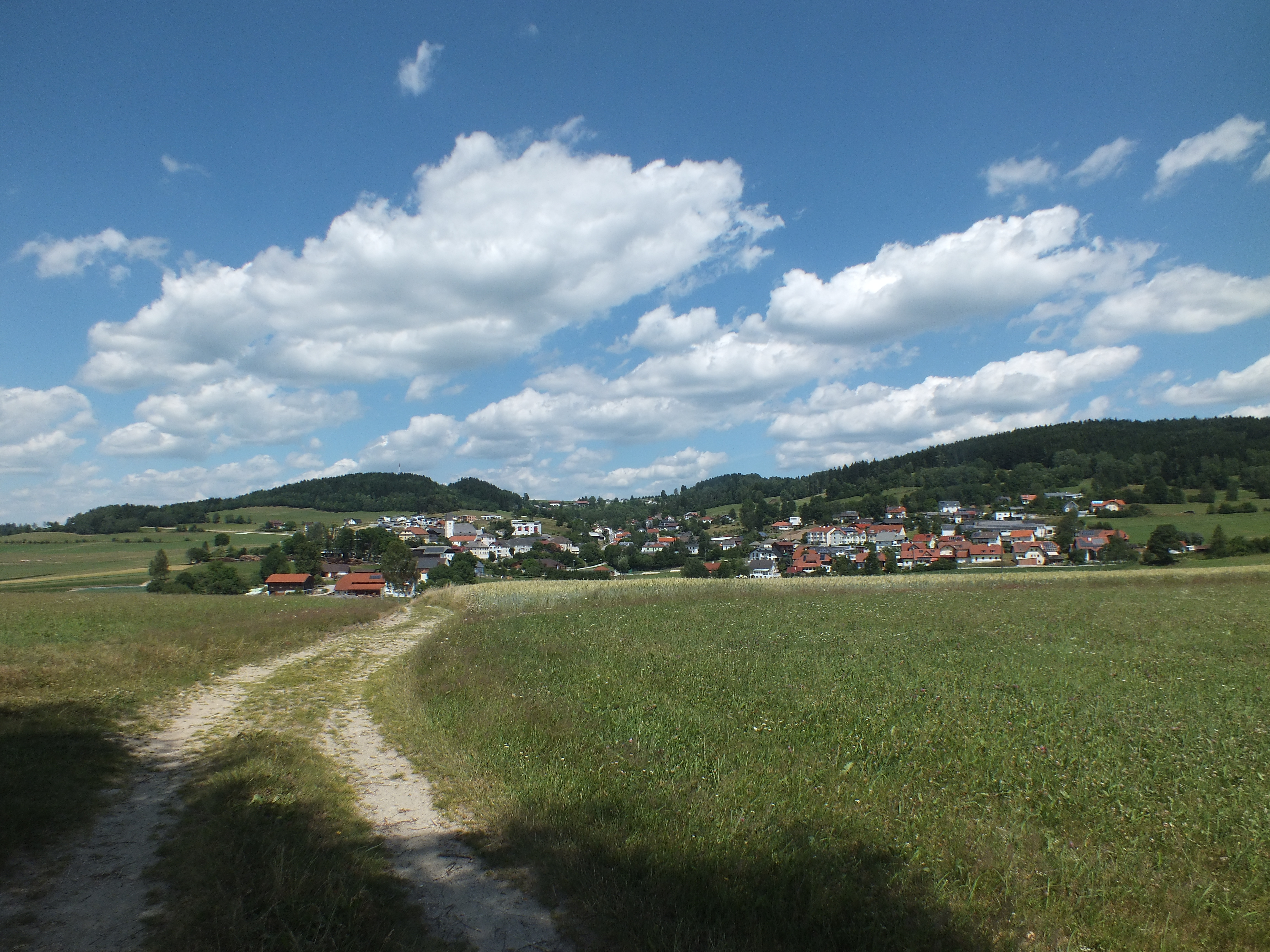 The general view of Grünbach in Upper Austria from the south